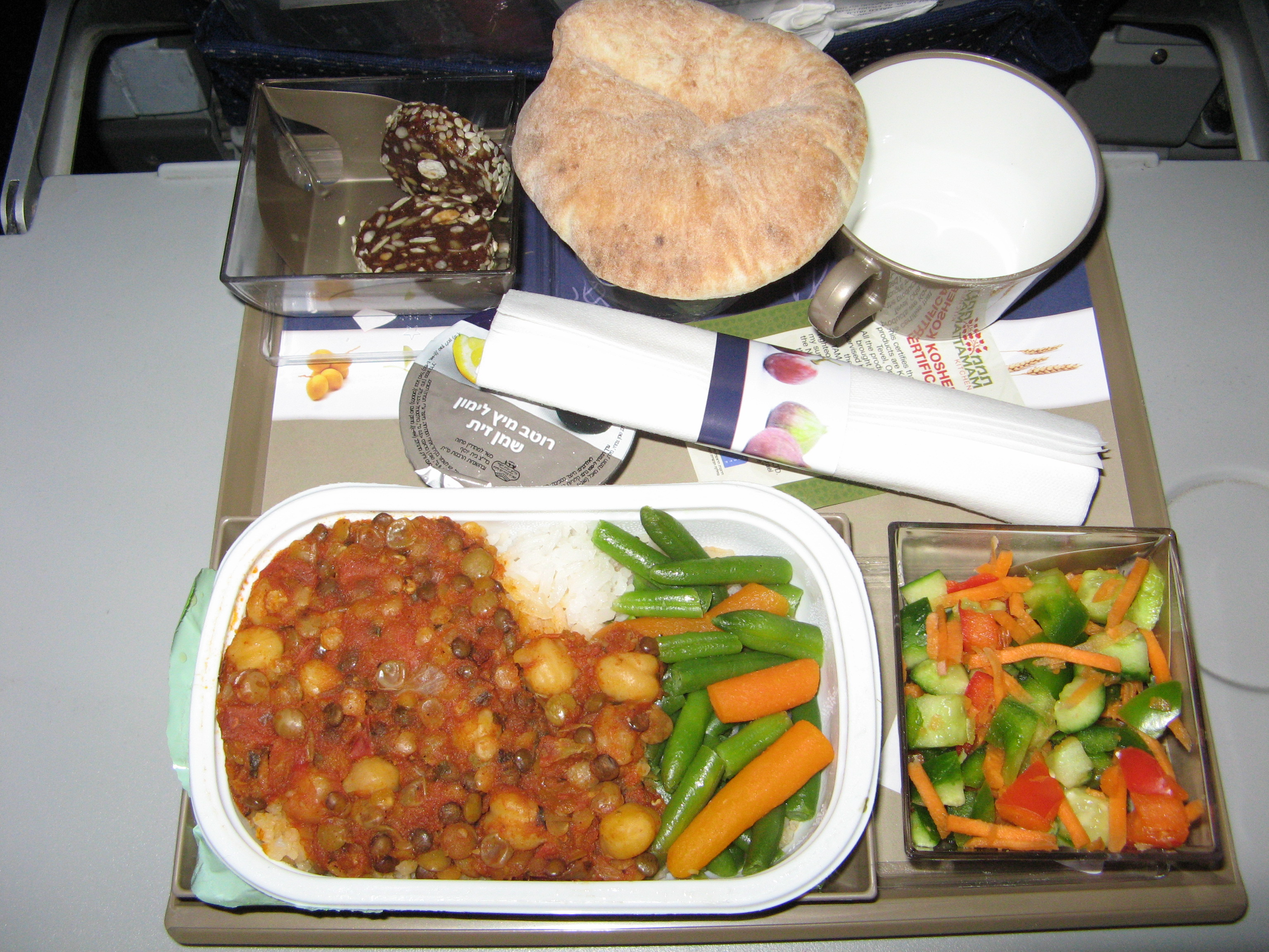 Inflight Airline vegan (VGML) meal during an El Al flight from Tel Aviv to Toronto.